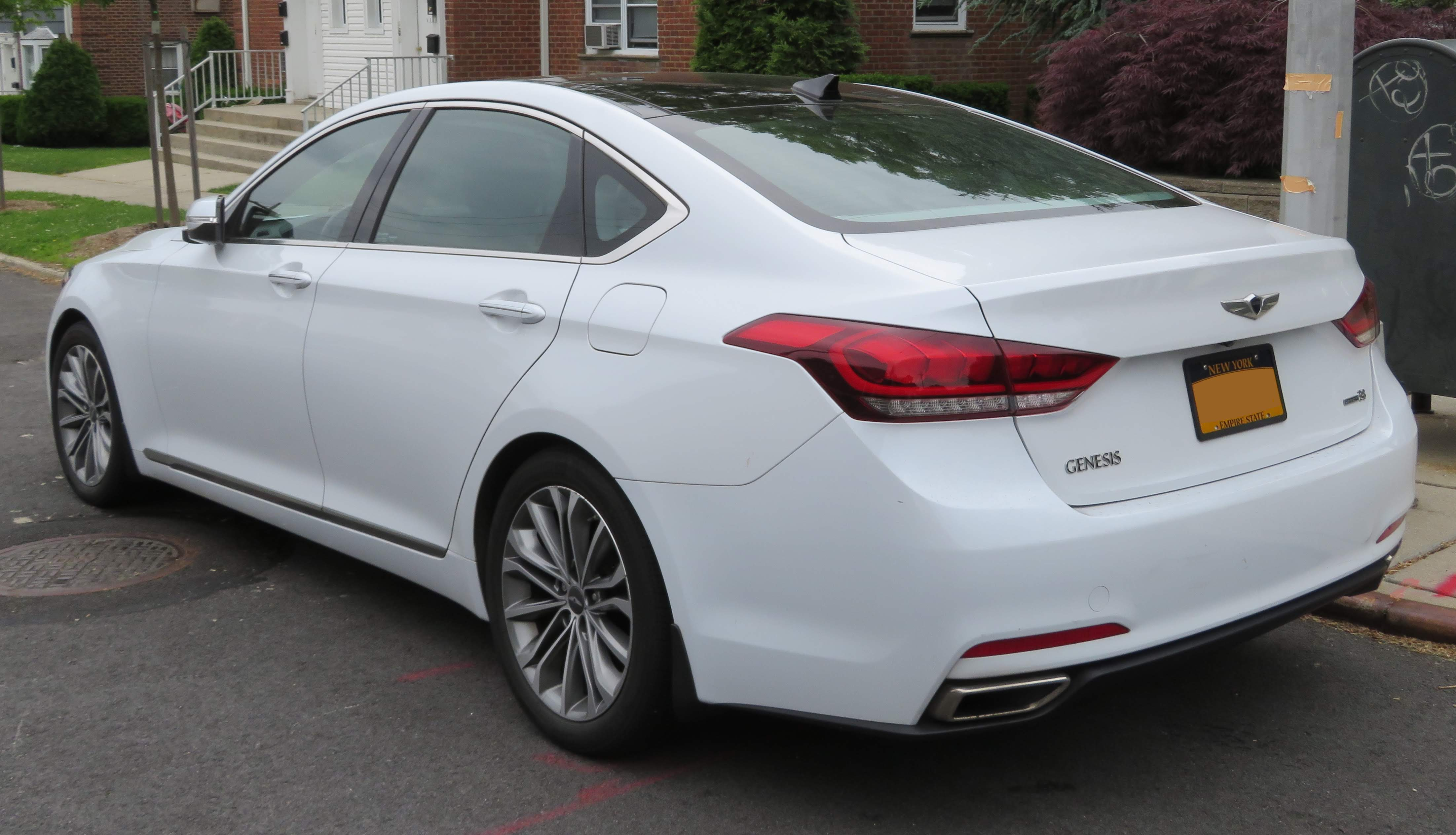 Photographed in Queens, New York